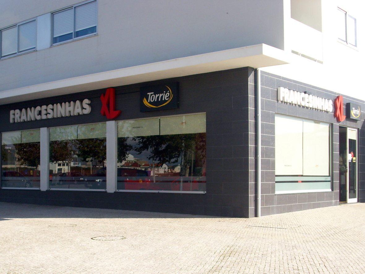 Francesinha fastfood restaurant in Póvoa de Varzim, Portugal